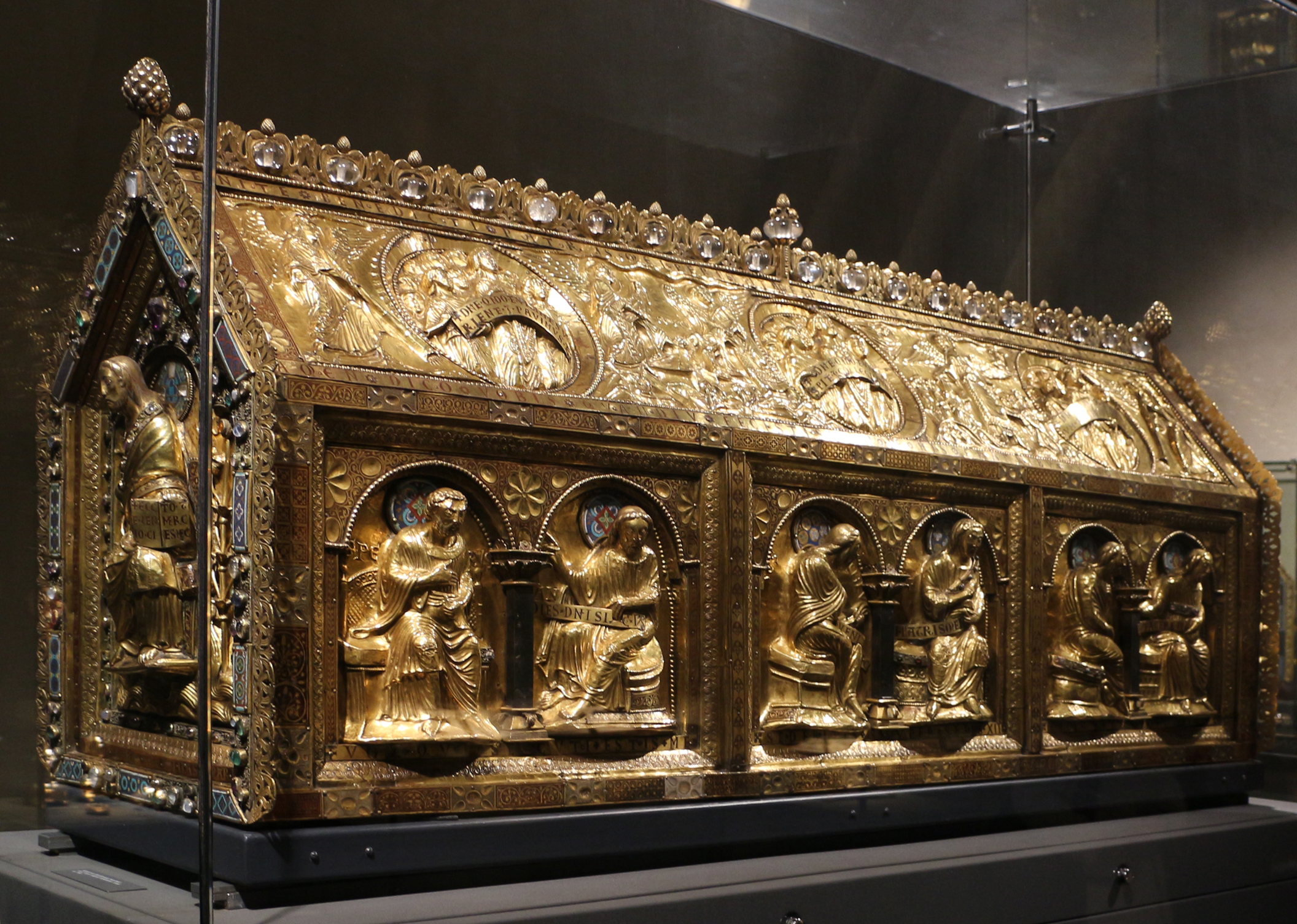 Reliquary chest of Saint Servatius